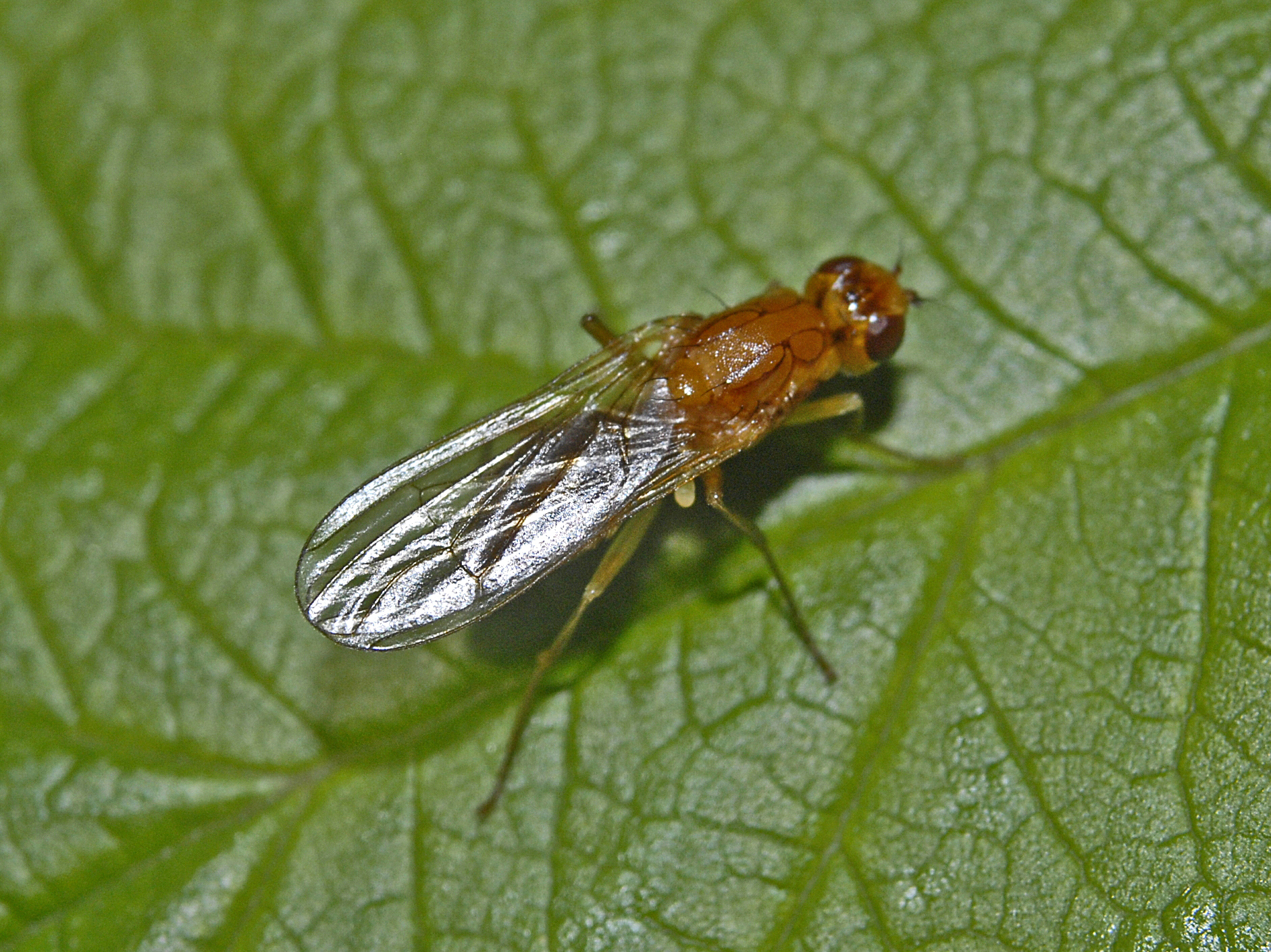 Psila fimetaria. Val di Rhemes, Aosta, Italy